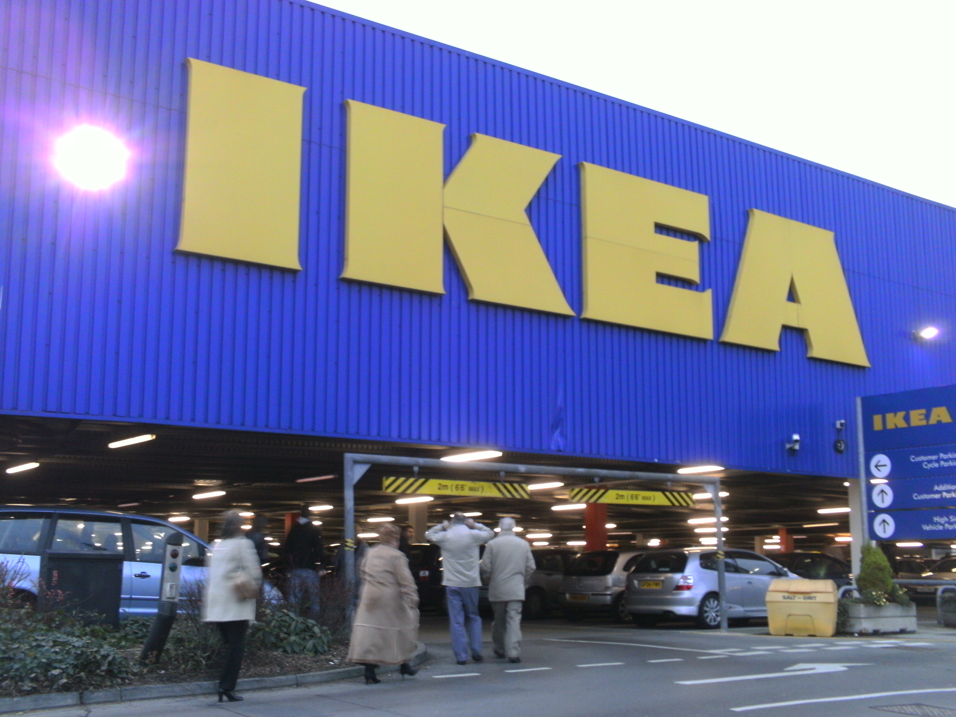 The Ikea multistory car park at Ikea, Birstall, Leeds, UK.